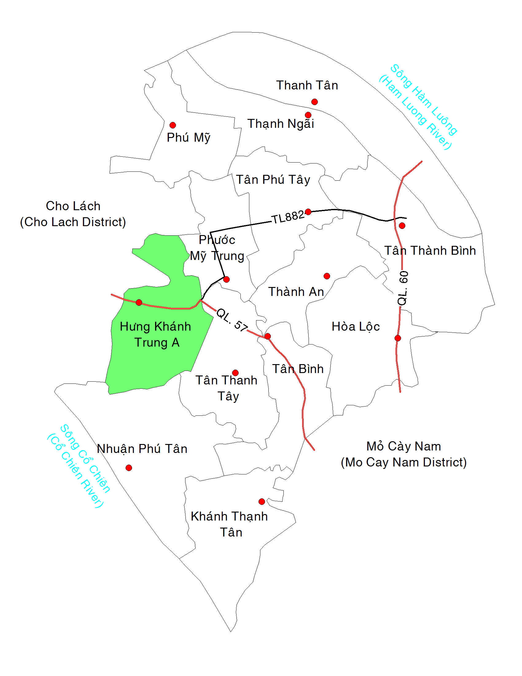 Locaiton map of Hung Khanh Trung A commune, Mo Cay Bac District, Ben Tre province, Vietnam